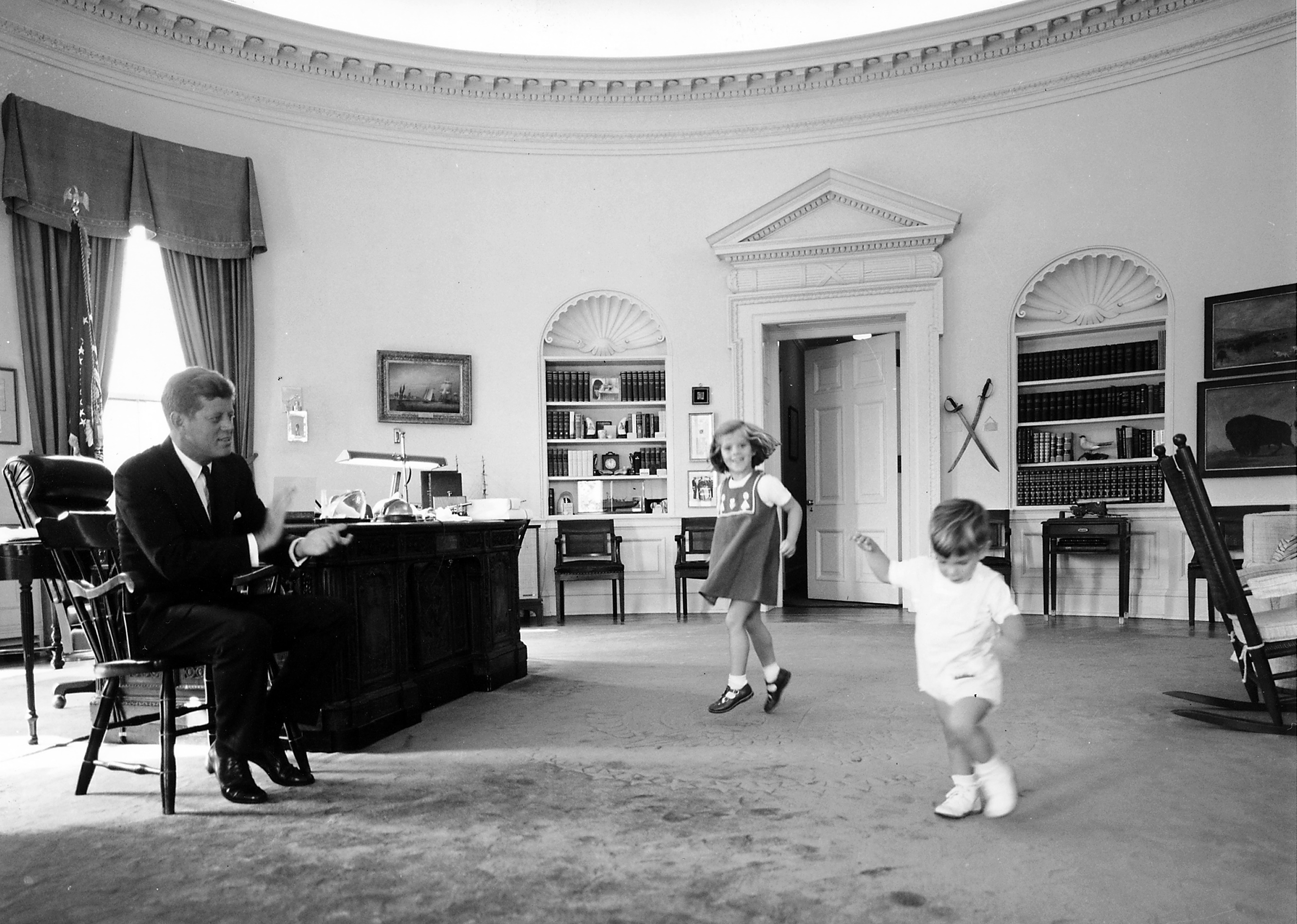 Kennedy children visit the Oval Office. President Kennedy, Caroline Kennedy, John F. Kennedy ,Jr. White House, Oval Office